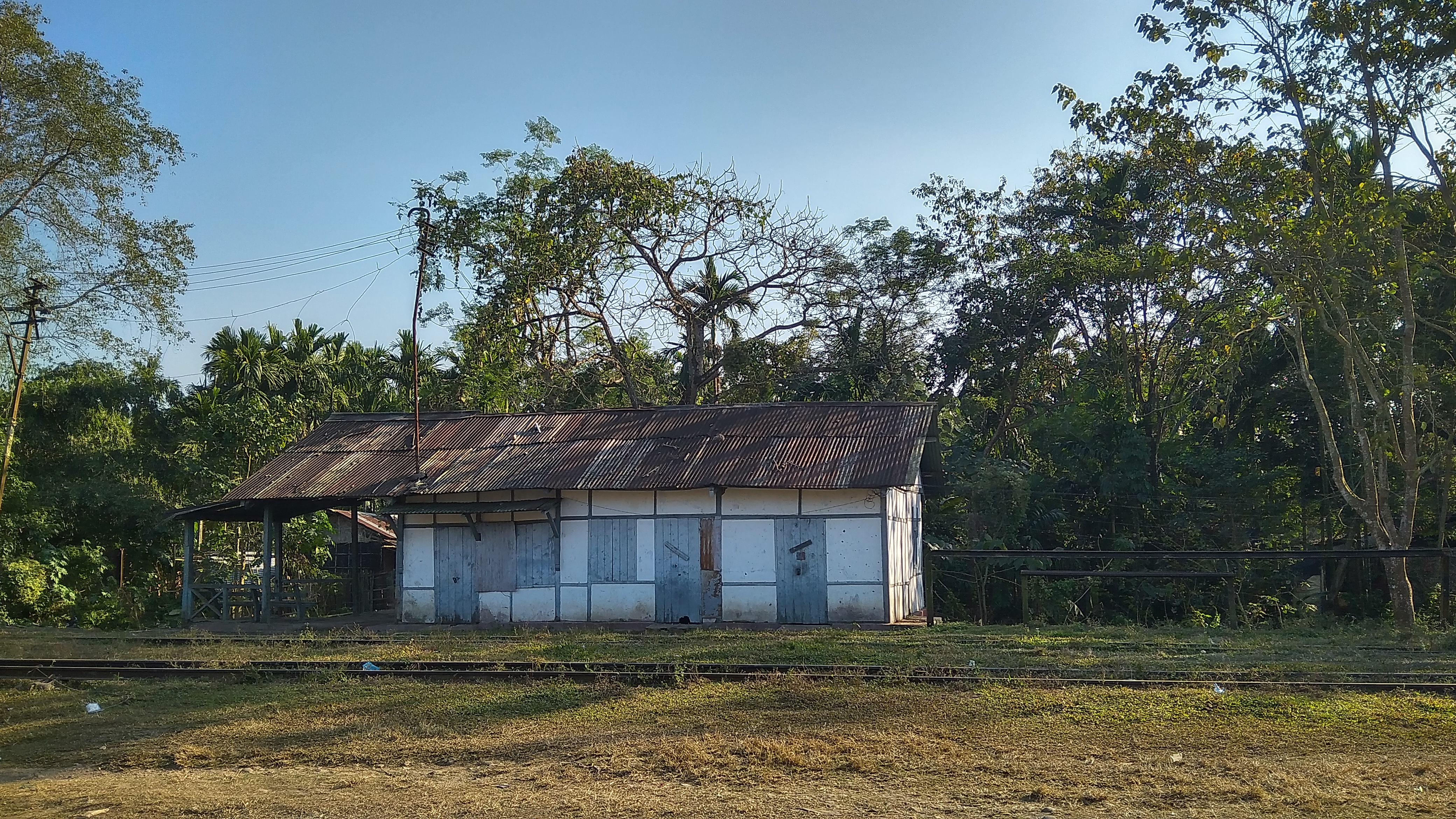 Abandoned Lehapani Railway Station